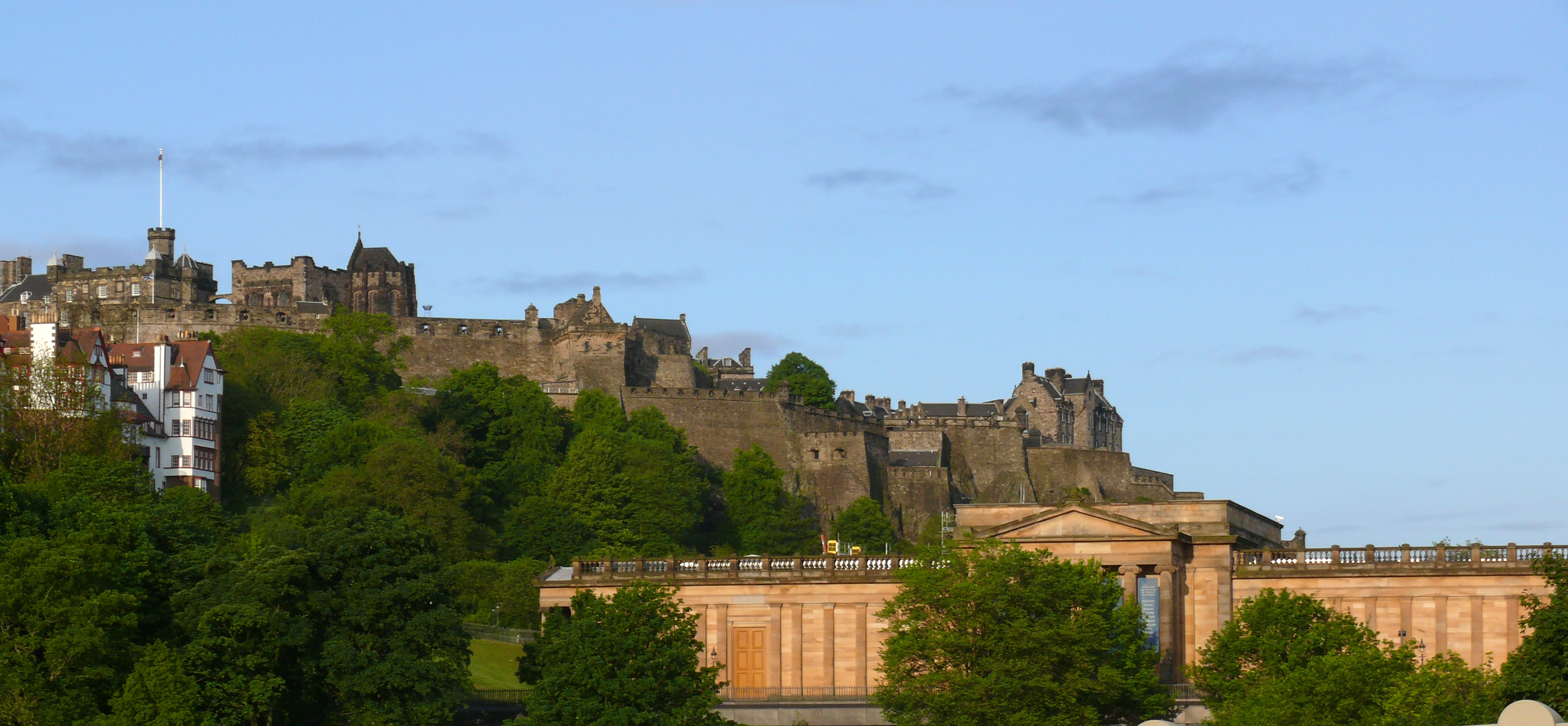 Edinburgh Castle as seen from the Princes Mall Shopping Centre. Edinburgh Castle is a castle fortress which dominates the skyline of the city of Edinburgh, Scotland, from its position atop the volcanic Castle Rock.